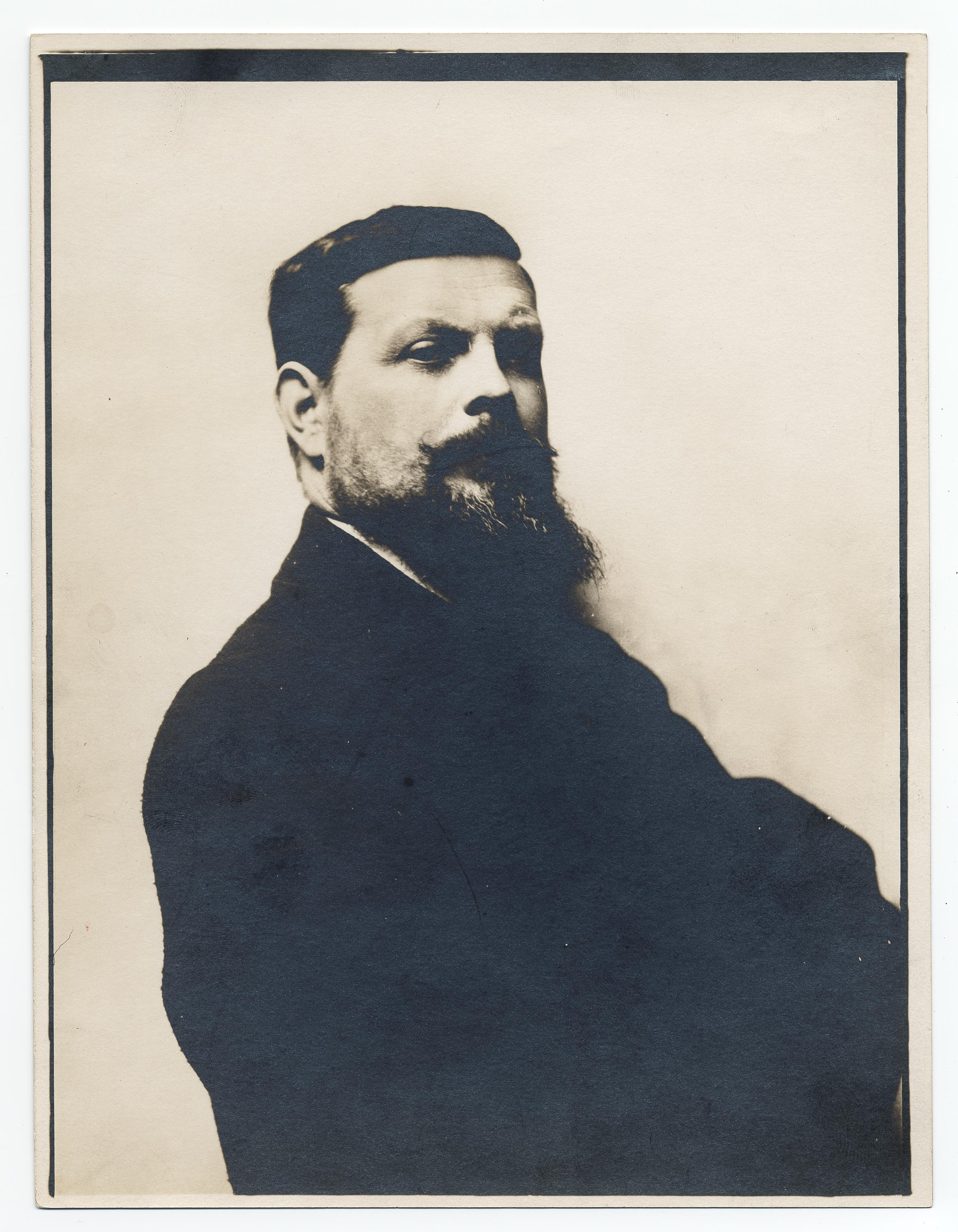 Description: Photographer unknown. Brangwyn, Frank, Sir, 1867-1956 Creator/Photographer: Unidentified photographer Medium: Black and white photographic print Dimensions: 22 cm x 17 cm Date: 1920 Persistent URL: [1] Repository: Archives of American Art Native nameArchives of American ArtParent institutionSmithsonian InstitutionLocationWashington, D.C.Coordinates38° 53′ 52.44″ N, 77° 01′ 21.72″ W Established1954Web page control : Q2860568 VIAF: 151134814 ISNI: 0000 0001 2185 0758 LCCN: n79065944 NLA: 35007823 GND: 1085306631 WorldCat Collection: Forbes Watson Papers, 1900-1950 Accession number: aaa_watsforb_3496